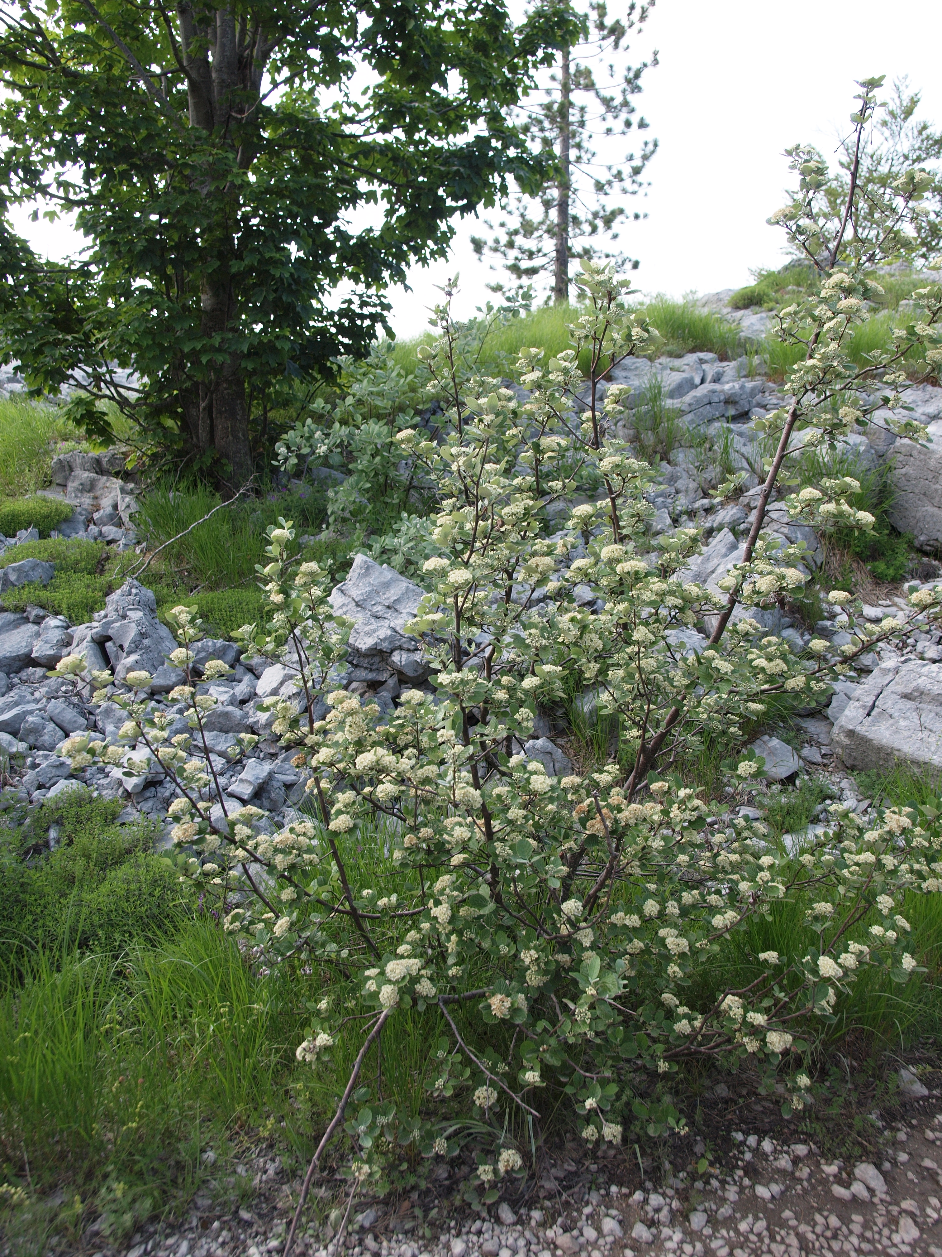 Viburnum maculatum Orjen Bijela gora